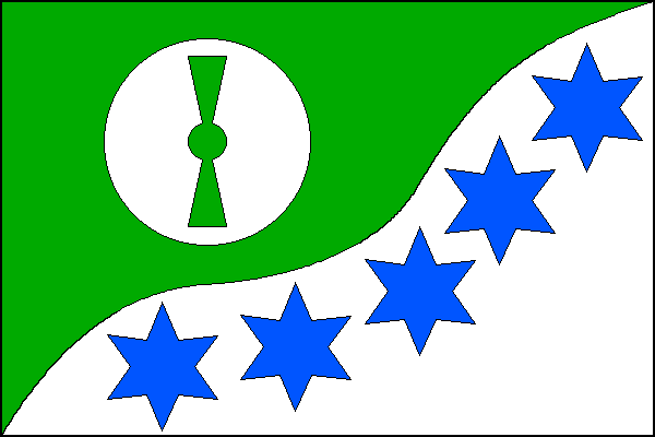 Municipal flag of Nemojany village, Vyškov District, Czech Republic.